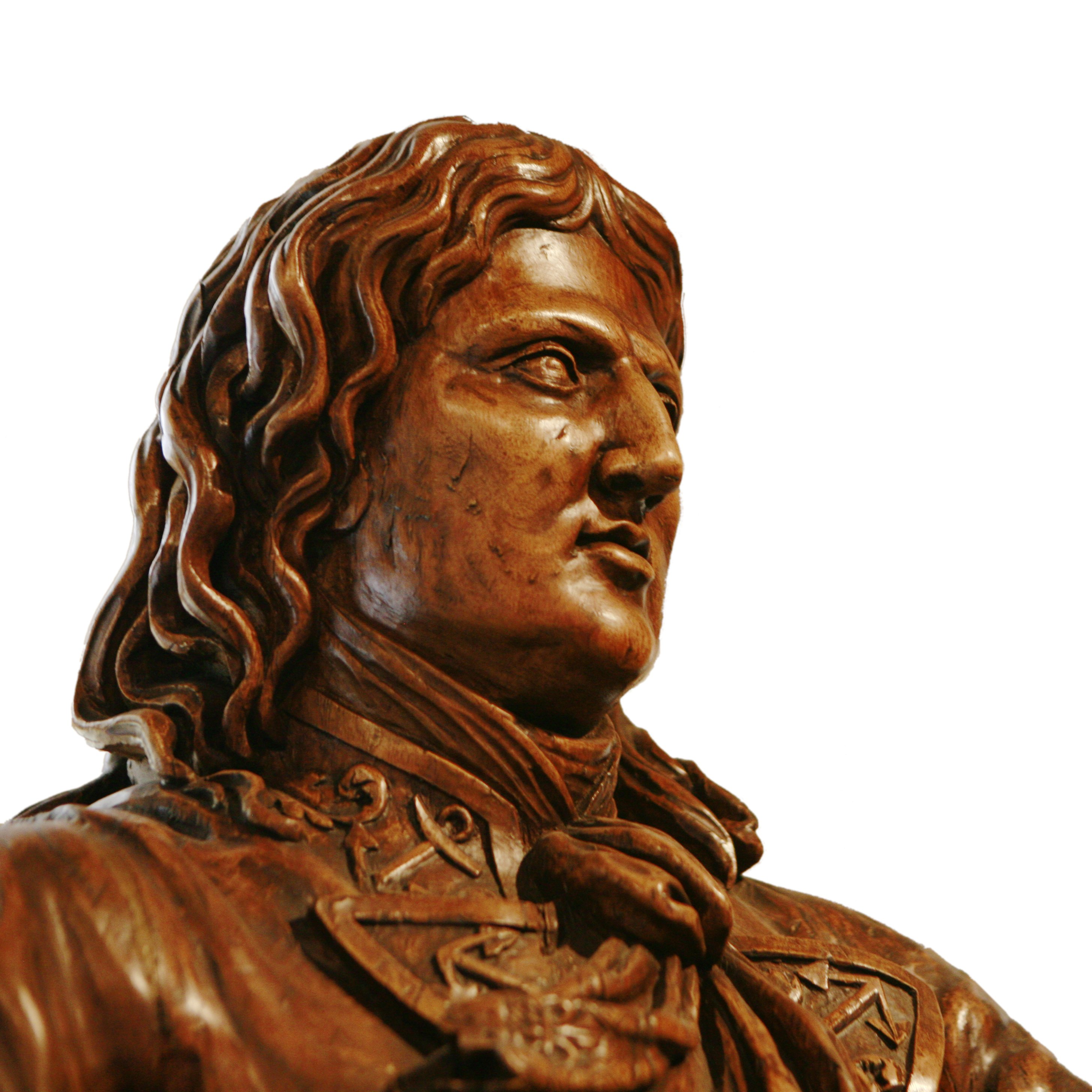 Wooden statue of Anne Hilarion de Tourville On display at Toulon naval museum. Access number 41 OA 56.